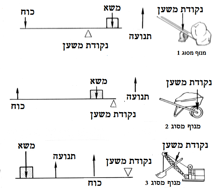 Levers types